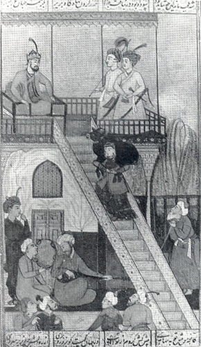 Fitna heaving a bull-calf. Nizami. “Hamsa”. The Chester Library, Dublin. Pers. 276, f. 171. 1668-1671. Bukhara